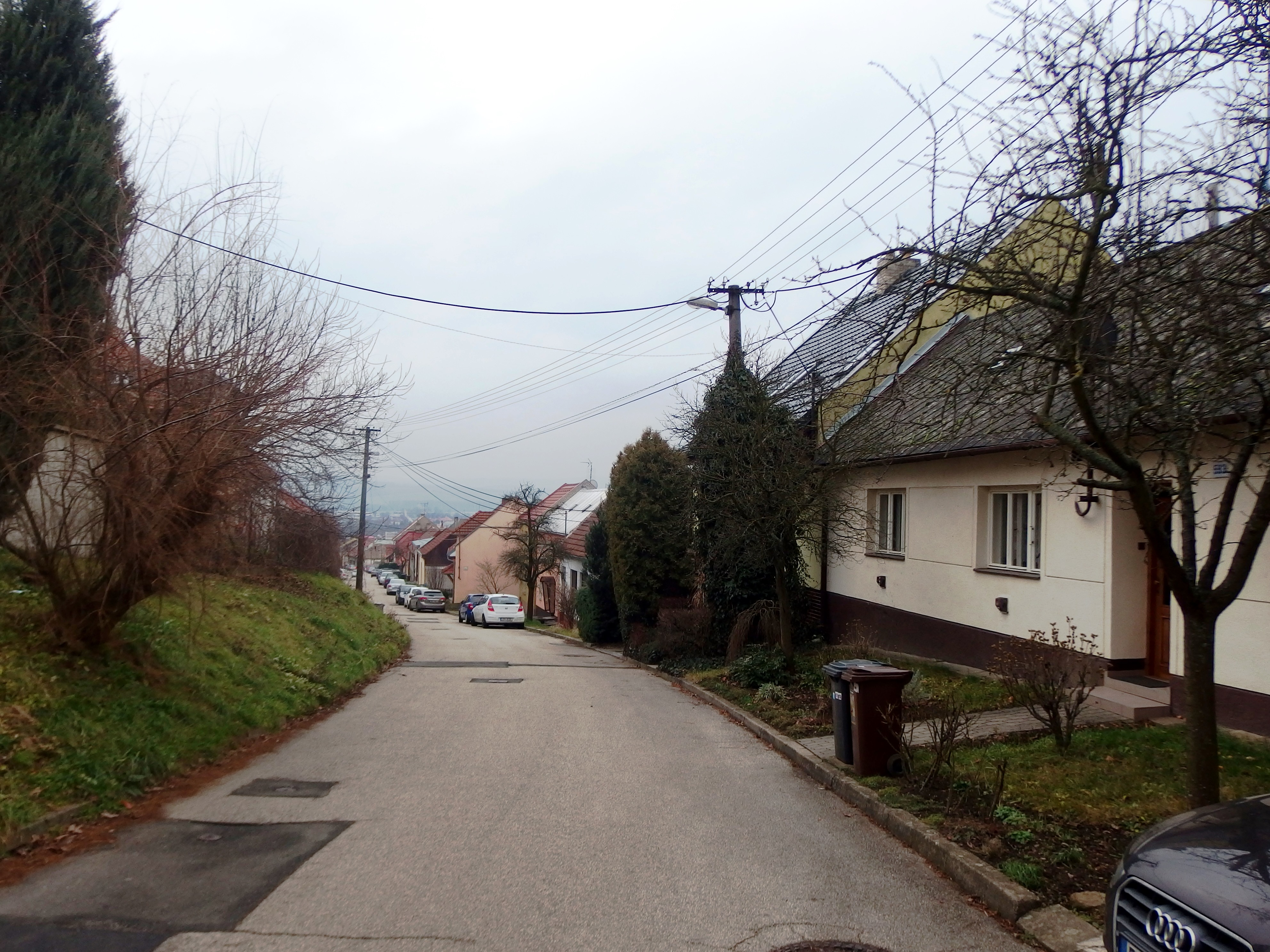 Uherský Brod, Uherské Hradiště District, Czech Republic.